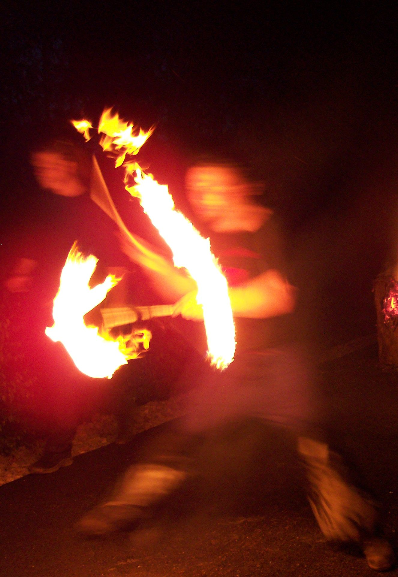 A juggler with a juggling torch